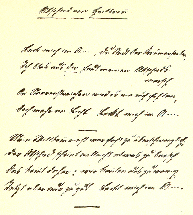 Parting poem of Heilbronn mayor Paul Hegelmaier (1847–1912) dedicated to the city